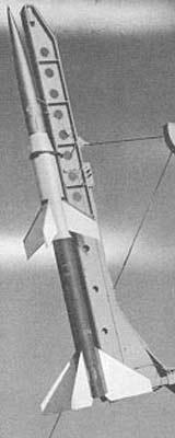 Astrobee-200 sounding rocket